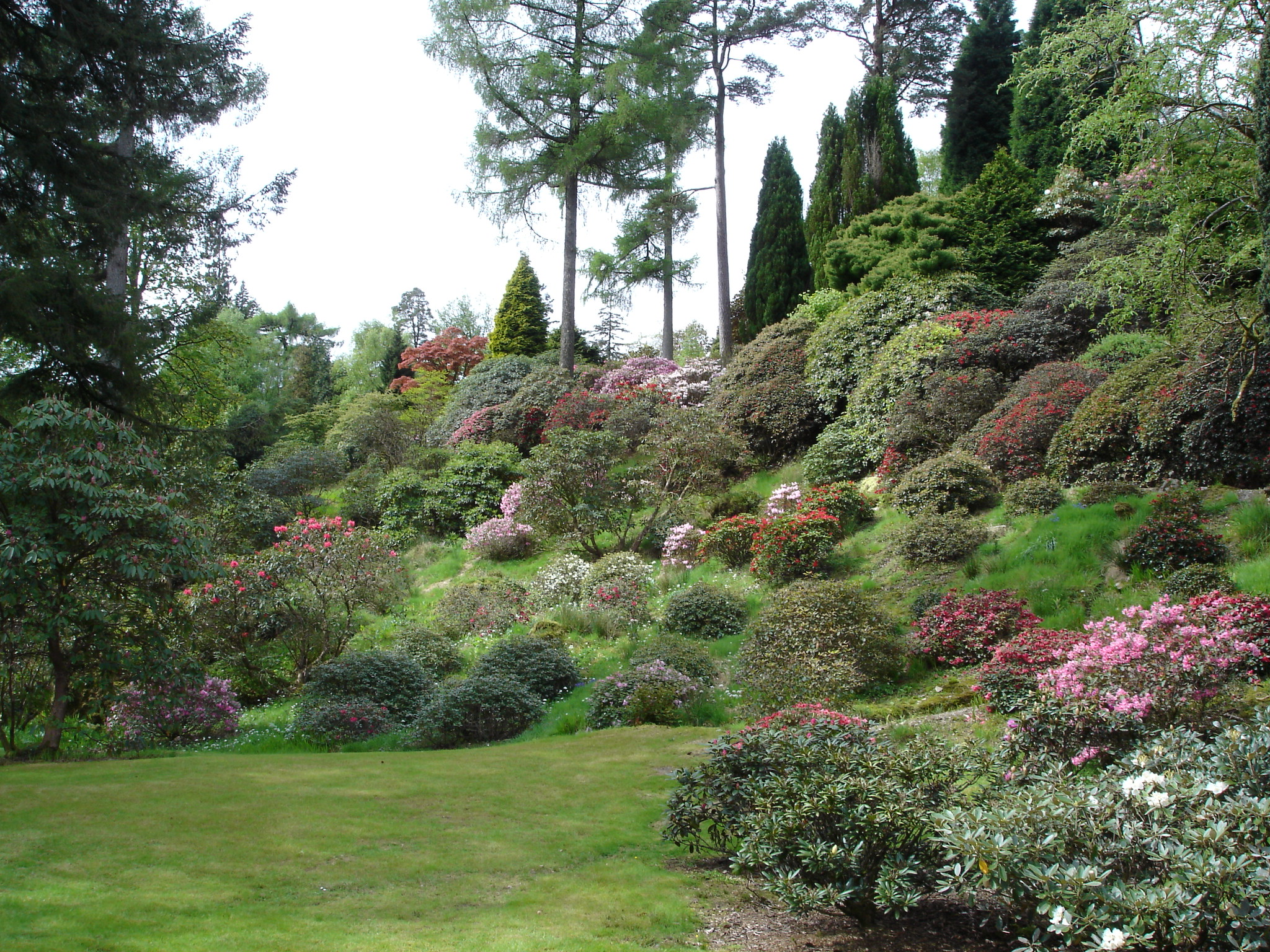 Rhododendron in bloom, Benmore, May 2005. Photo by Andreas Nilsson, released into the public domain.